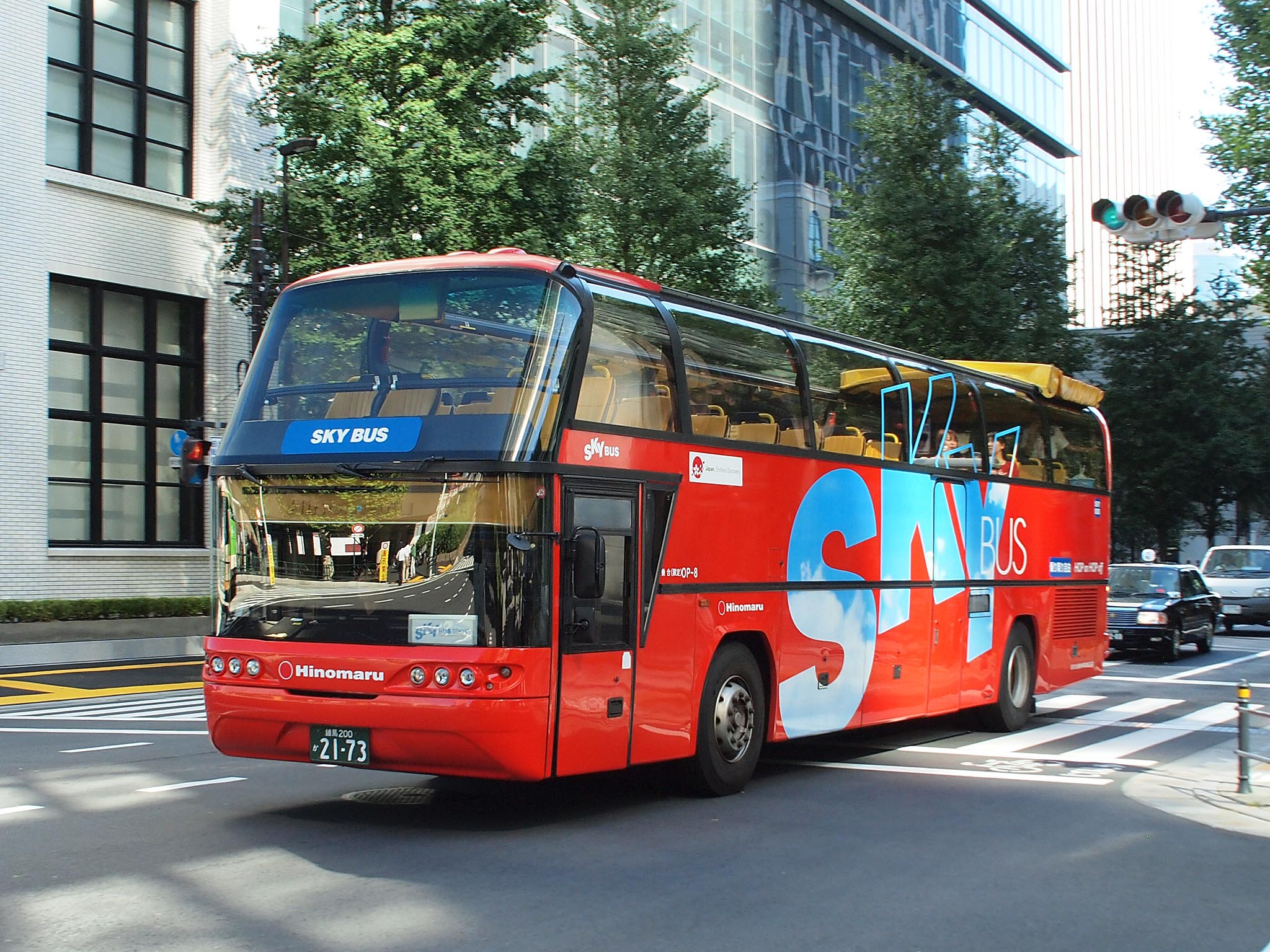 Fleet of Hinomaru Jidosha Kogyo, for city tour "Sky Bus Tokyo". Model: Neoplan N117/2 Spaceliner (modefied) License plate: TKN200 KA1832 - NNN200 KA-912 - TKN200 KA2173 - ACN200 KA3410 - TKN200 KA2964 Place: Marunouchi, Chiyoda Ward, Tokyo Japan